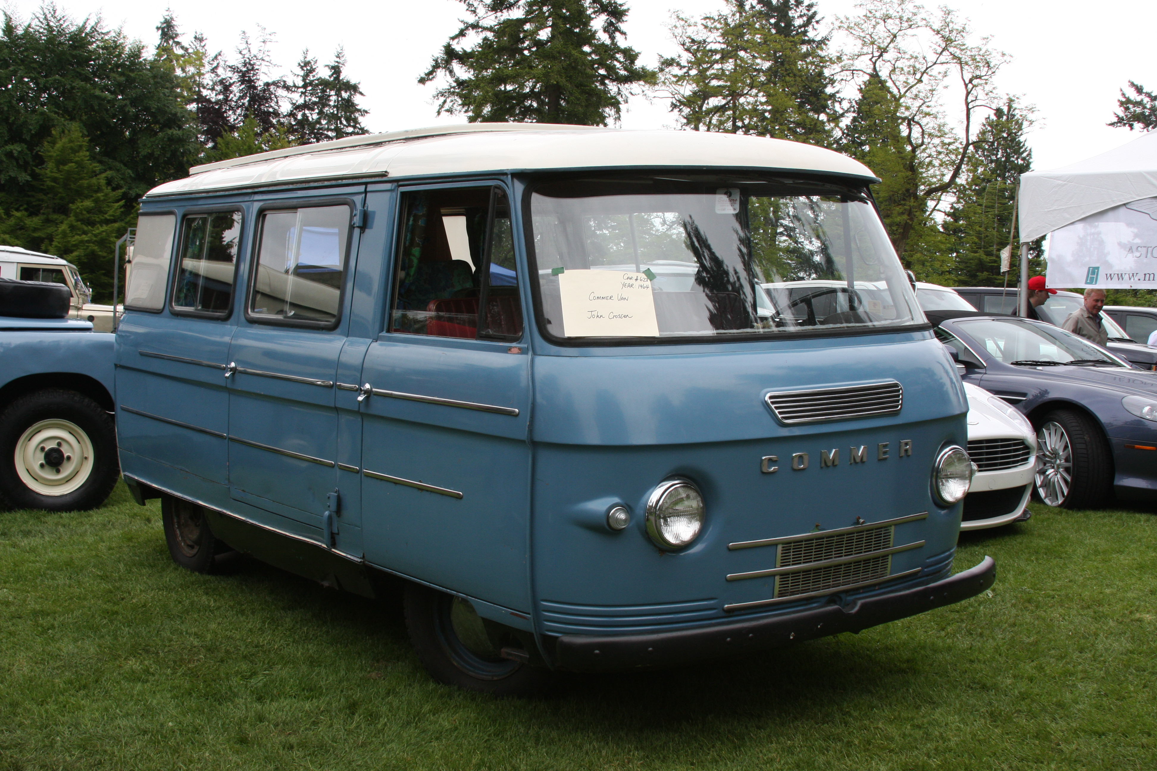 Interesting 1964 Commer Van set up as a mini motor home.